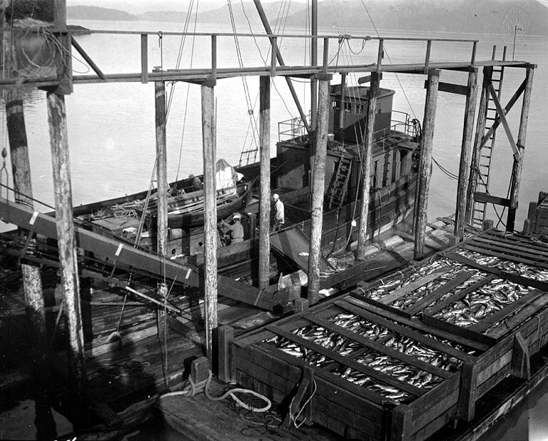 From John Cobb field notebook: F. W. cannery; fish elevator, scowload of fish and launch "Eagle". Aug. 1918 Subjects (LCTGM): Canneries--Alaska--Wrangell; Salmon--Alaska--Wrangell Subjects (LCSH): Salmon canning industry--Alaska--Wrangell; Scows--Alaska--Wrangell